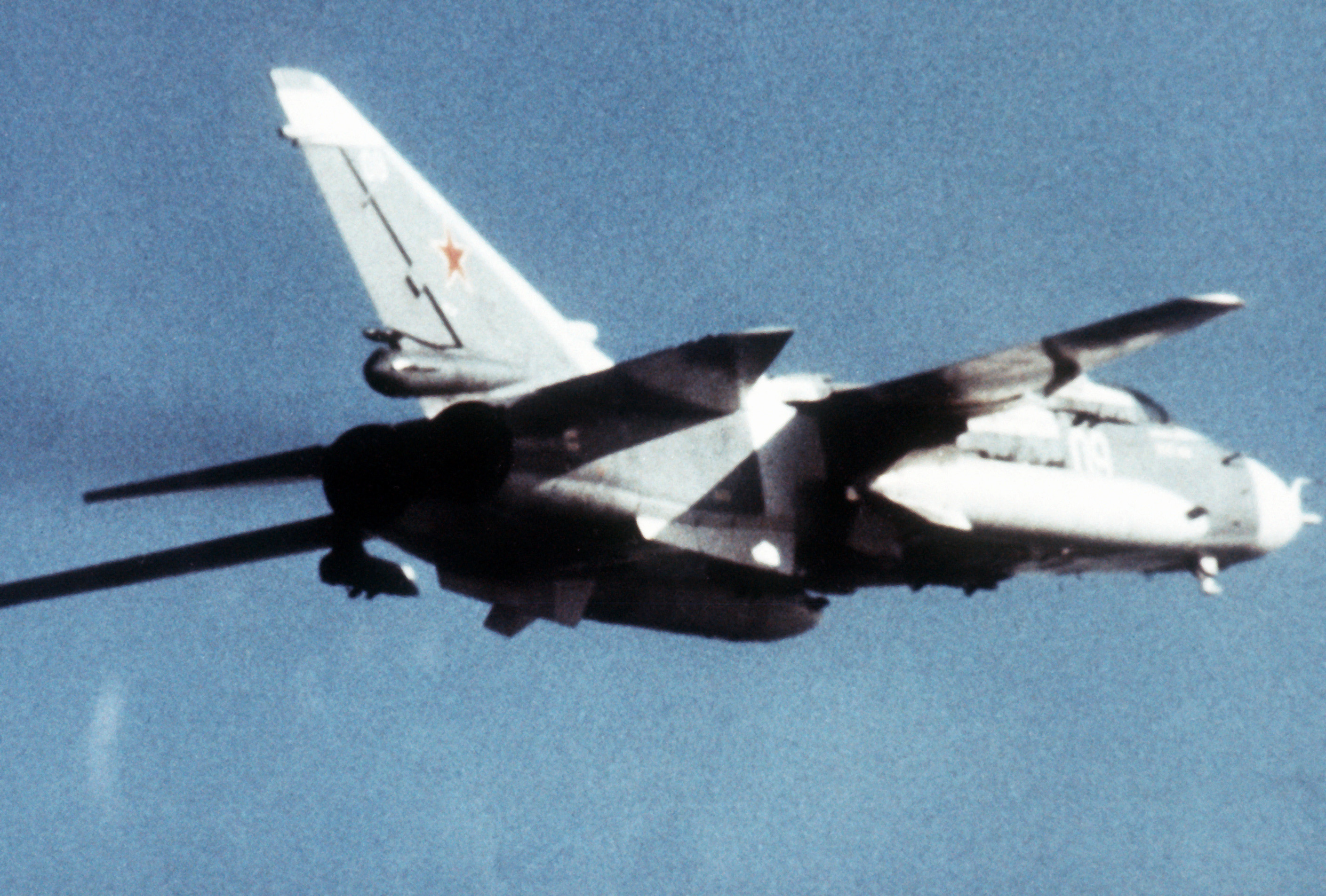 A right rear view of a Soviet Su-24 Fencer fighter-bomber aircraft in-flight.